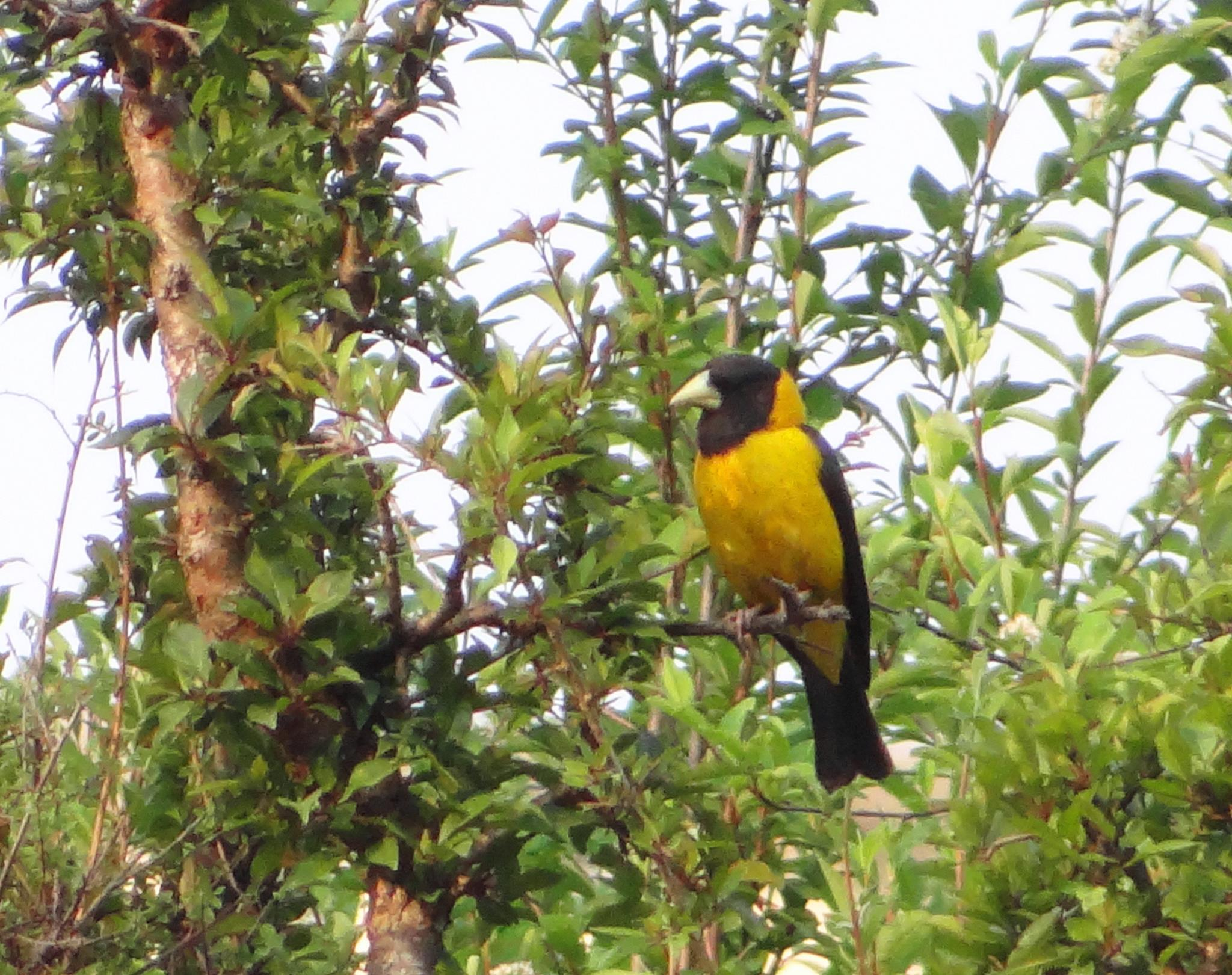 This image of Black and Yellow was clicked on the Auli-Joshimath road close to ITBP mountaineering institute